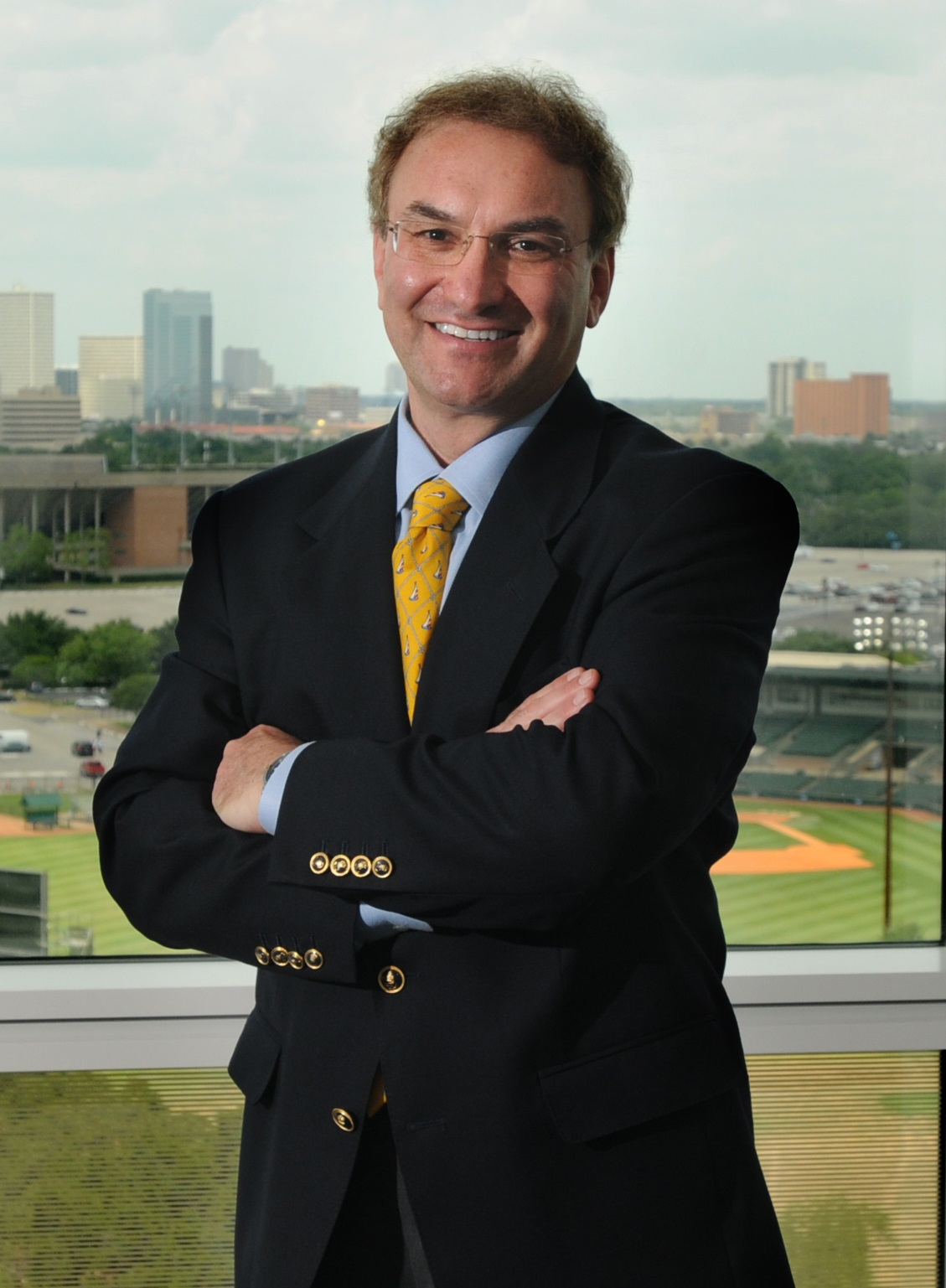 This is a higher resolution photo of me that is currently on my wiki page